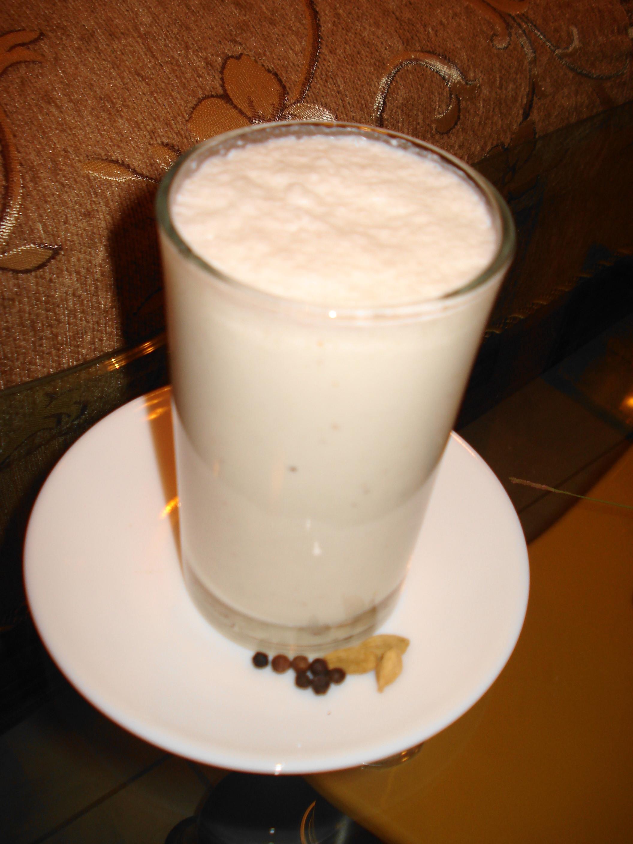 One of the most popular drink of Punjab